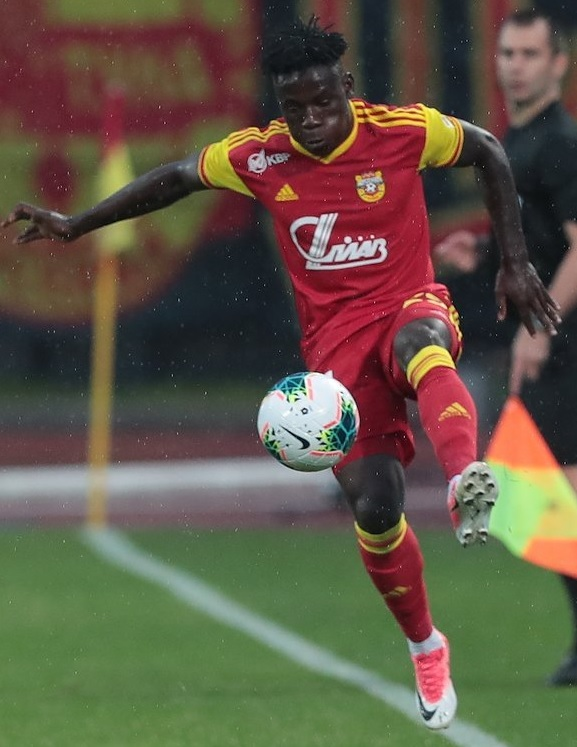 Lameck Banda with FC Arsenal Tula in a game against FC Dynamo Moscow.